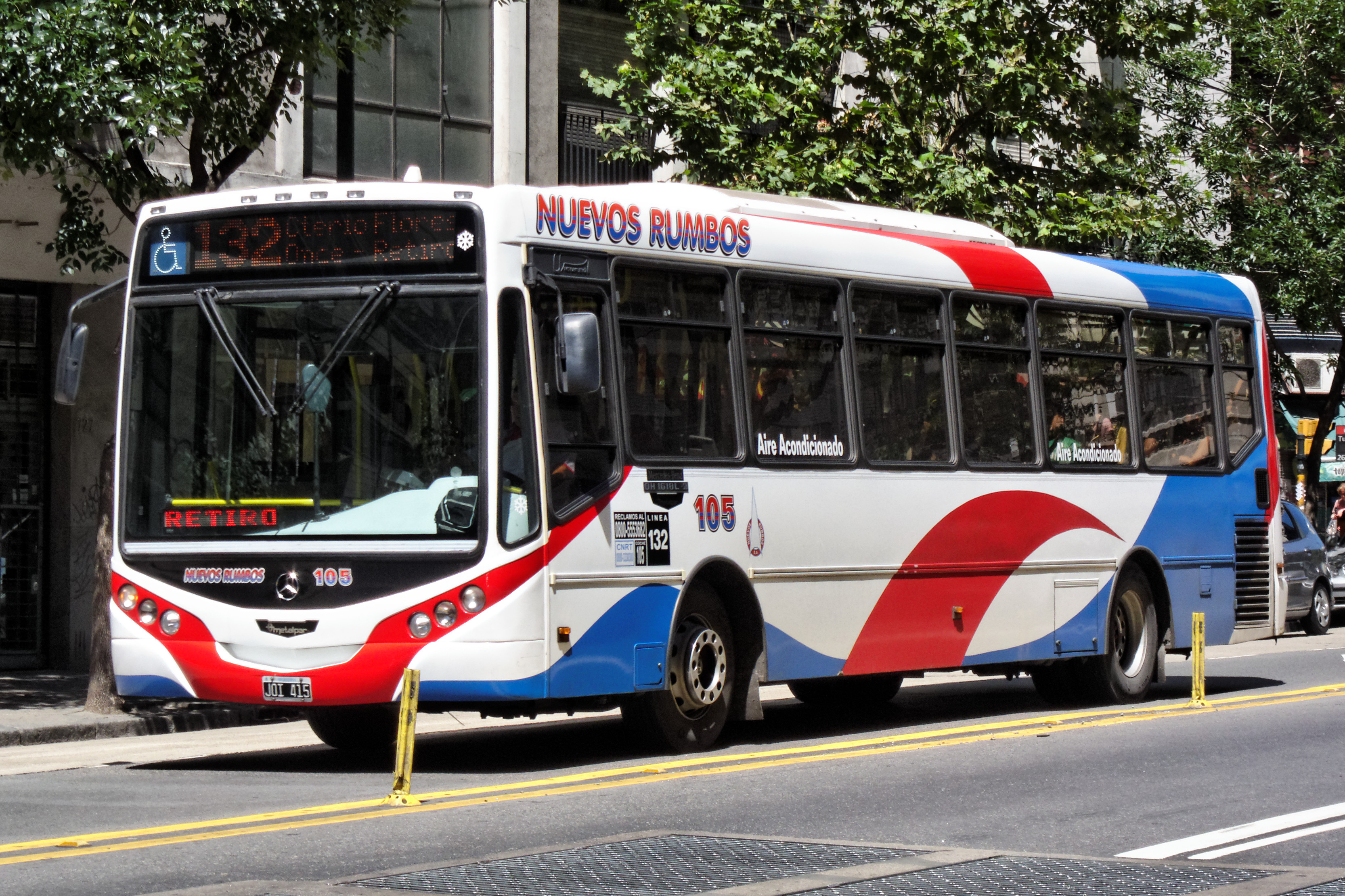 Metalpar Iguazú II bus (reg. JOI 415, #105) with Mercedes-Benz OH 1618 L-SB chassis in Buenos Aires, Argentina. Colectivo, line 132, Nuevos Rumbos S.A. operator.